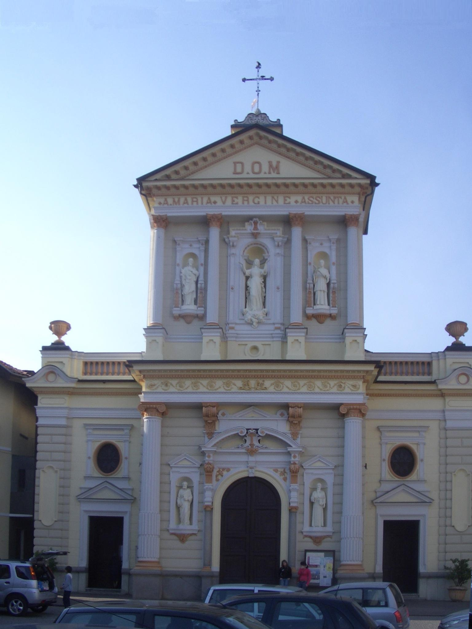 Rocca Canavese, Parish church